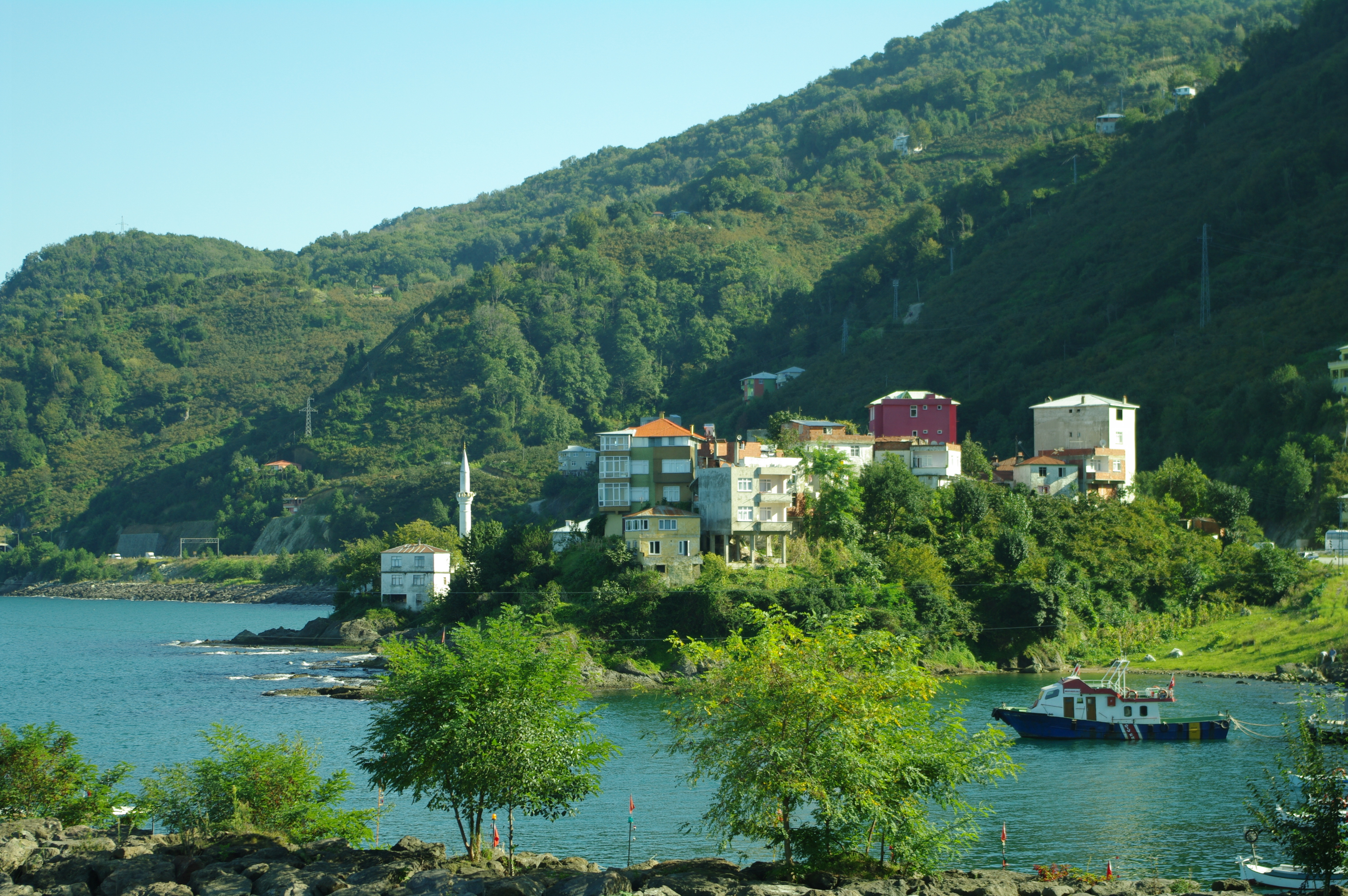 A view of Gulburnu small seaside village in the southeastern coastal zone of Black Sea. It is located in Espiye district of Giresun province, Turkey.